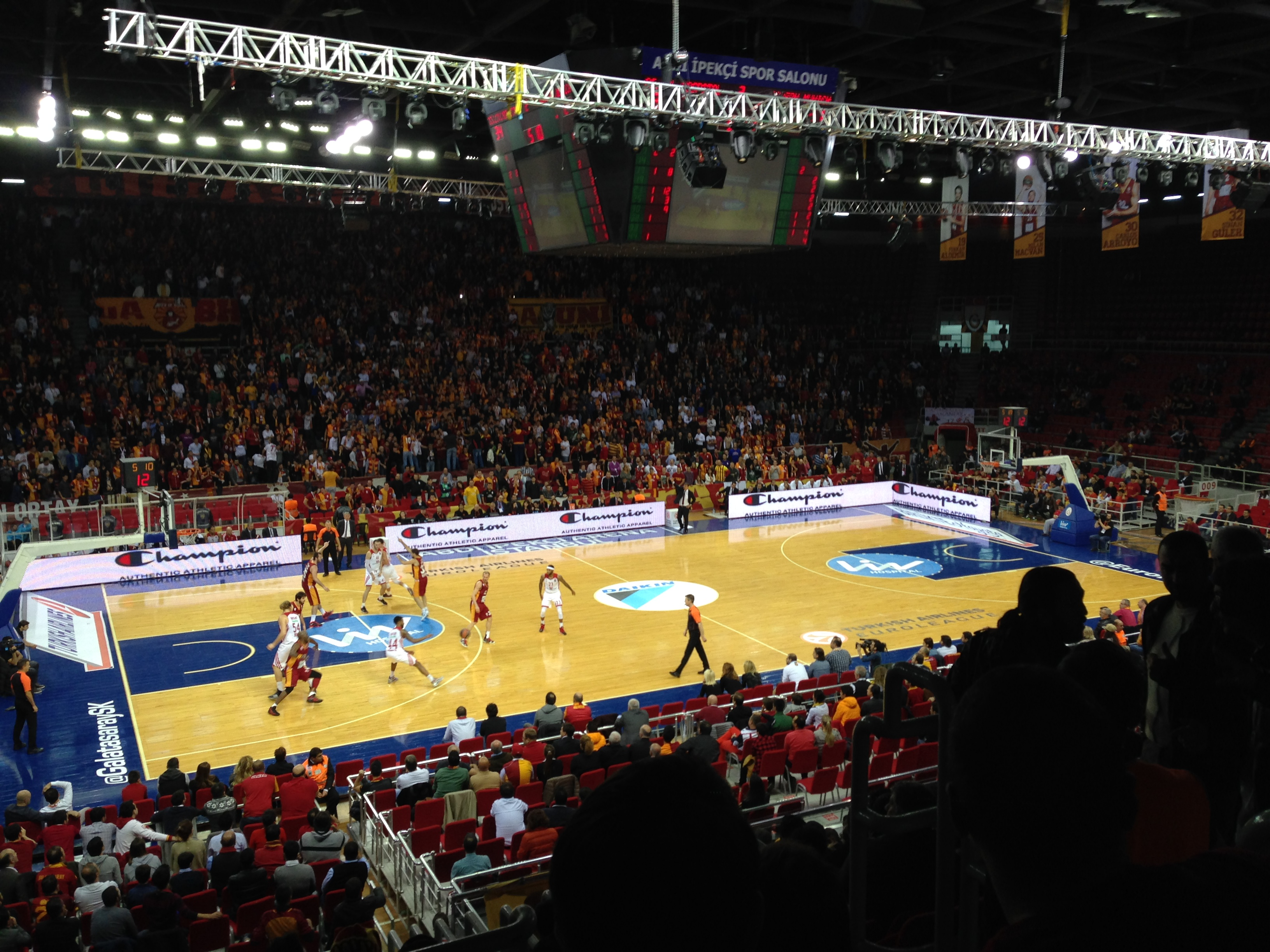 Galatasaray basketball team is having match with Bayern Munich in Abdi İpekçi Arena